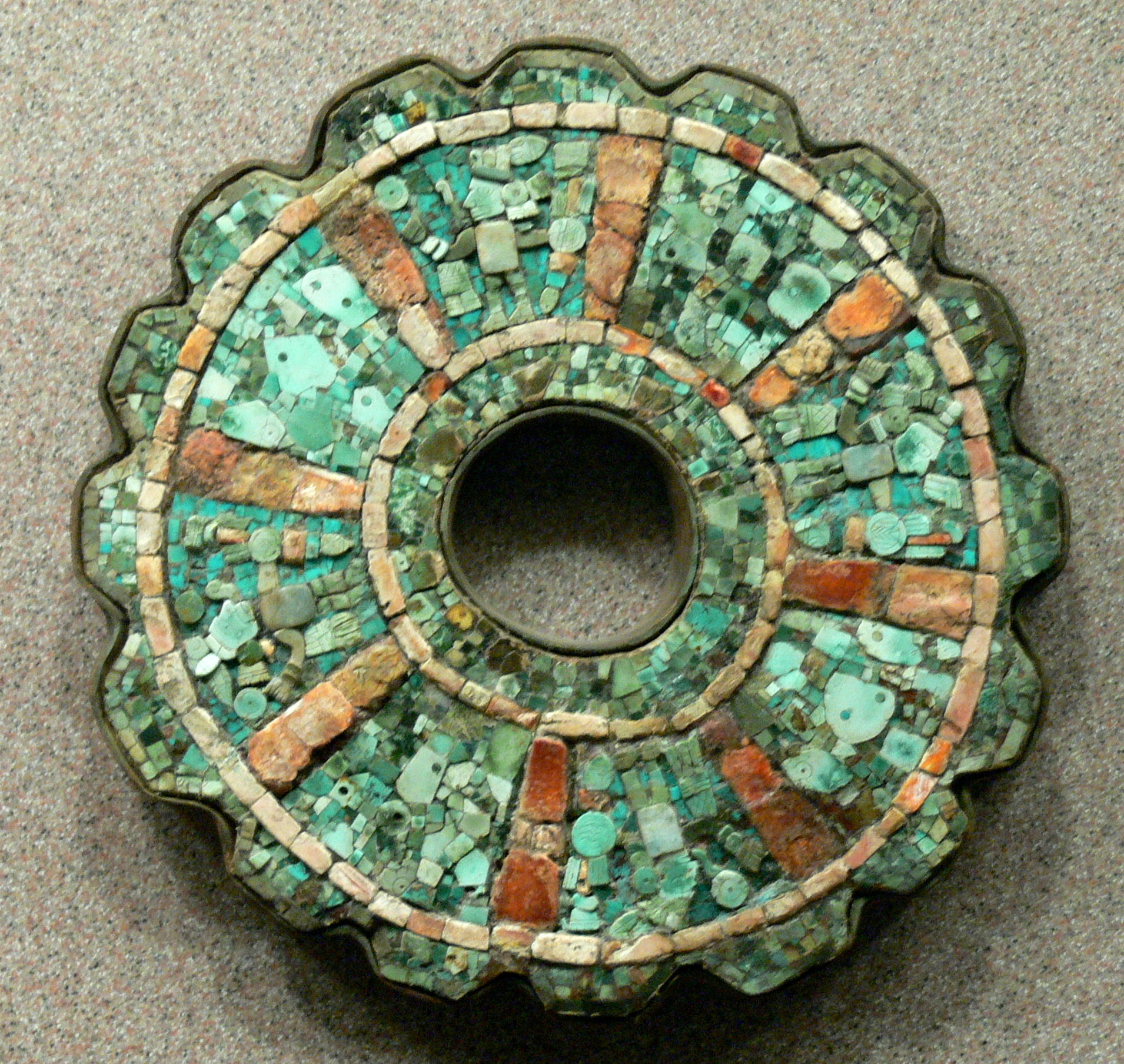 Tardive post-classical disc.